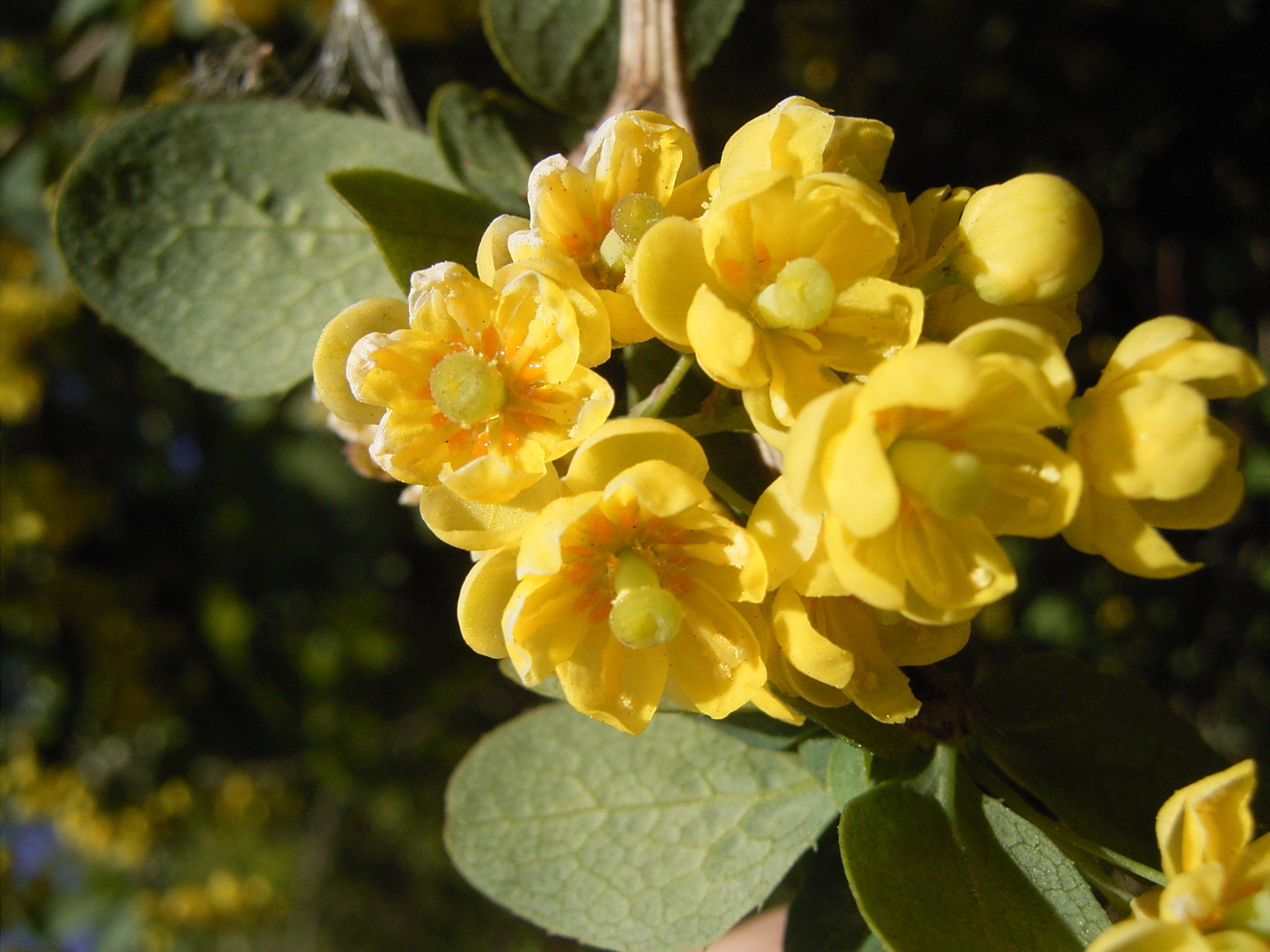 This photo shows flowers of berberis vulgaris